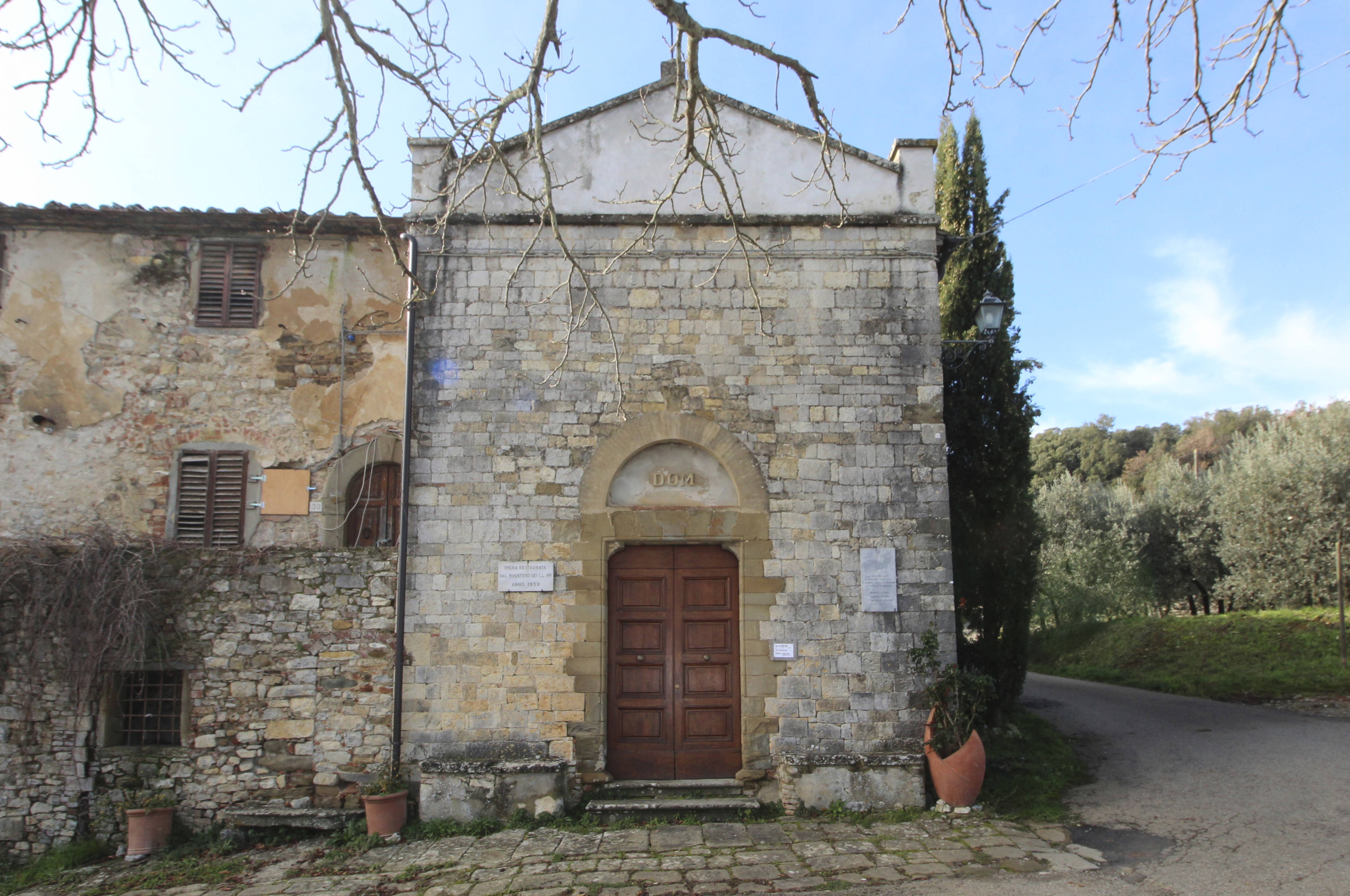 Church San Michele Arcangelo, Duddova, hamlet of Bucine, Province of Arezzo, Tuscany, Italy